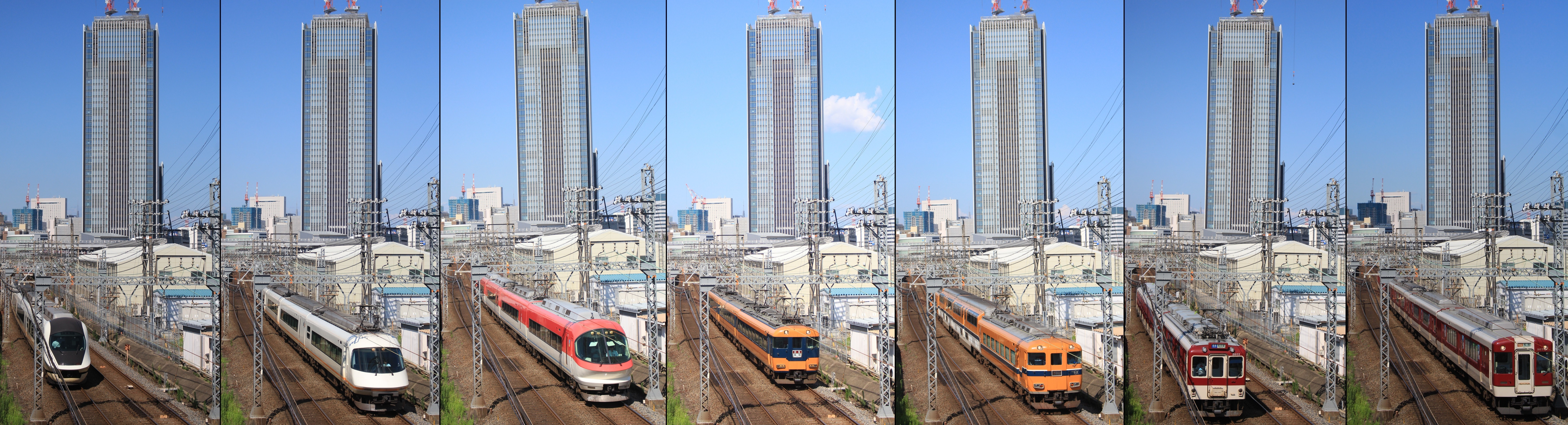 Trains of Kintetsu Nagoya Line and Global Gate in Nakamura-ku, Nagoya, Aichi prefecture, Japan.